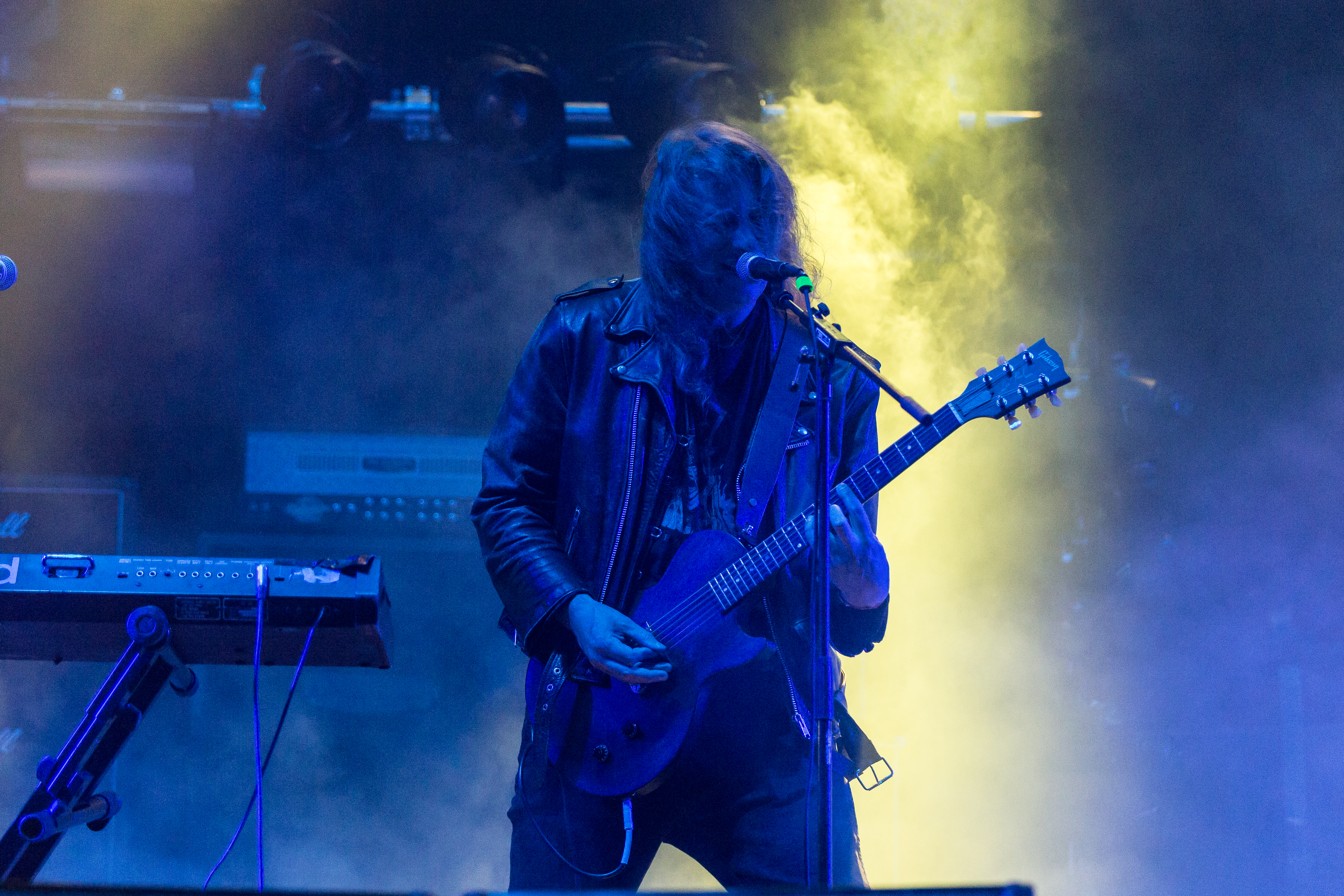 The Dutch atmospheric black metal band Urfaust at the Party.San Metal Open Air 2016 in Obermehler-Schlotheim/Germany.